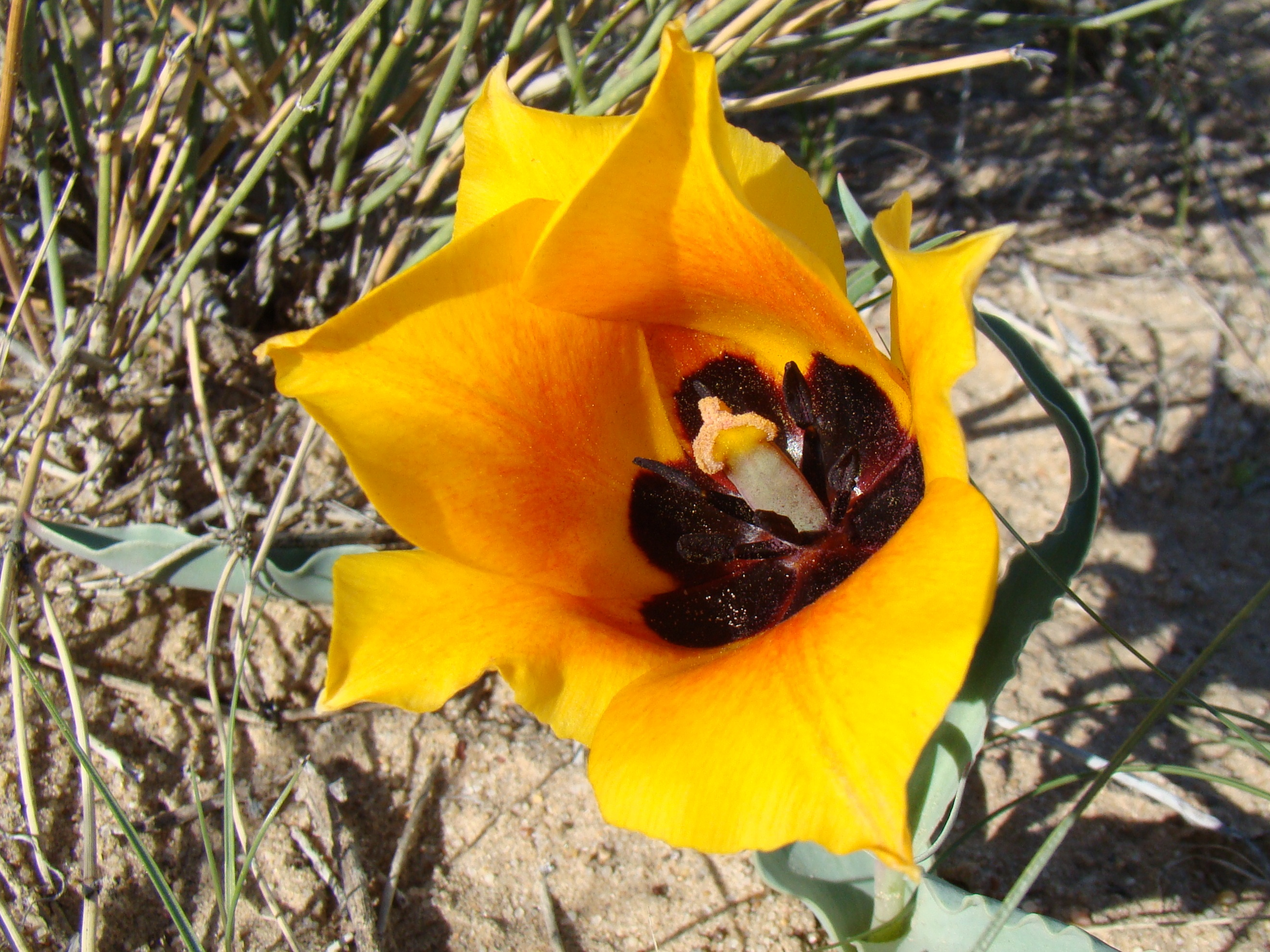 Tulipa borszczowii. Endemic plant of Aral see basin. Baikonur-town, Kazakhstan.